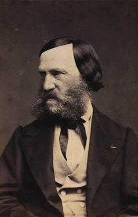 Siegfried Saloman, née Salomon (1816-1899), Danis violinist and composer